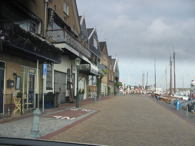 Urk kade / The Quay from Urk / Urk : le quai